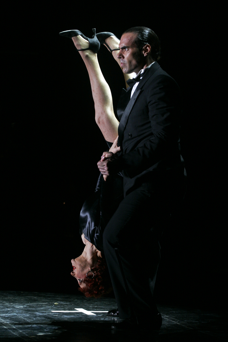 María Nieves & Junior Cervila, dancing in "Tango Argentino" (Claudio Segovia), Song: "Patético". at the Obelisco, Buenos Aires, feb 2011. Photo: EStrella Herrera